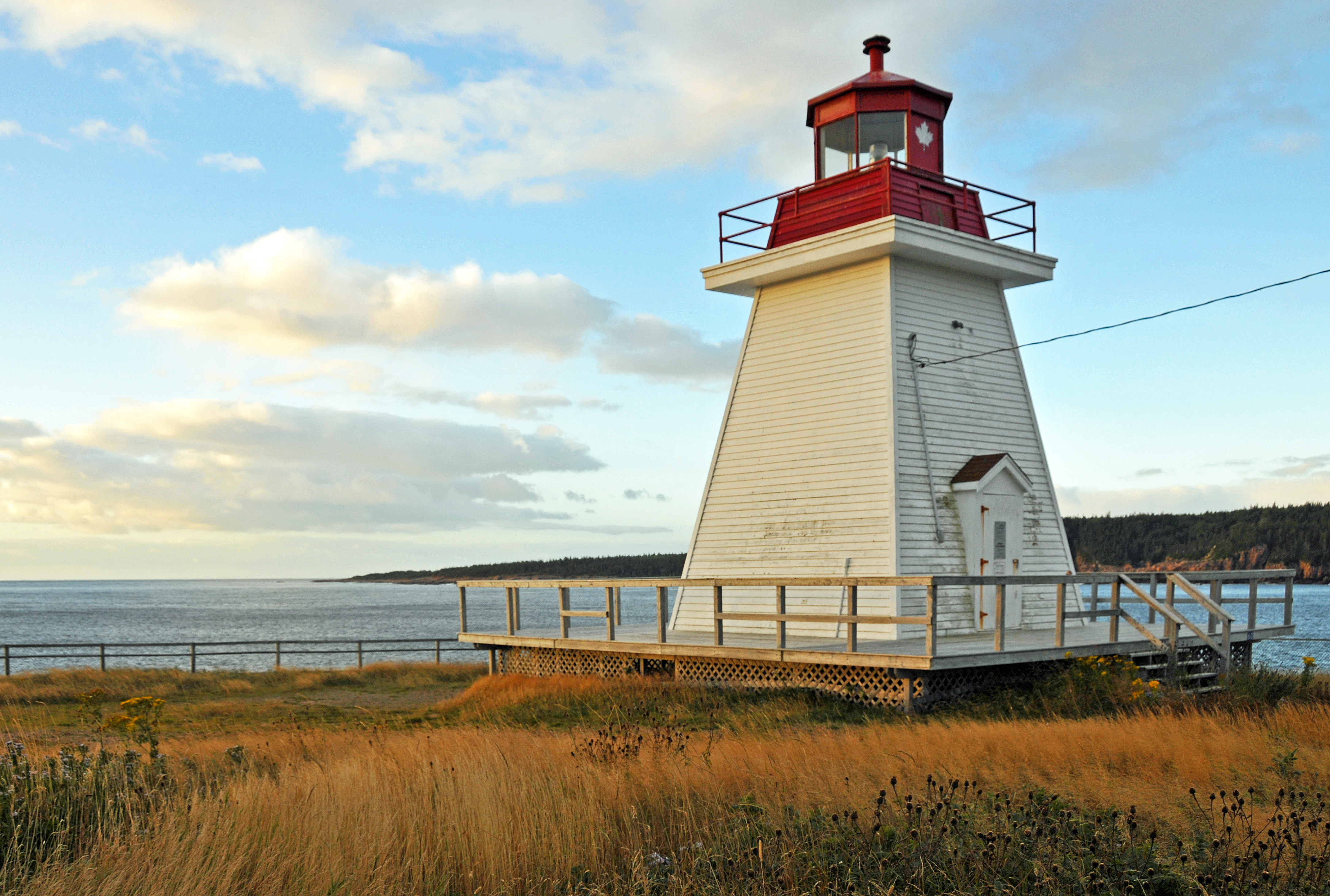 PLEASE, no multi invitations, glitters or self promotion in your comments. My photos are FREE for anyone to use, just give me credit and it would be nice if you let me know, thanks - NONE OF MY PICTURES ARE HDR. The first light was established here in 1899. In the summer months it is used as an ice cream store. It overlooks Neil's Harbour just outside the northeast corner of Cape Breton Highlands National Park. Began and Lit: 1899 Tower Height: 10.4 meters (34ft) Light Height: 22.3 meters (73ft) above water level Scenic Drive: Cabot Trail